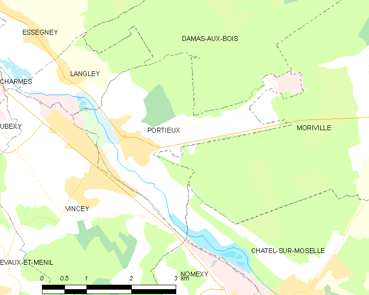 Map of French municipality Portieux